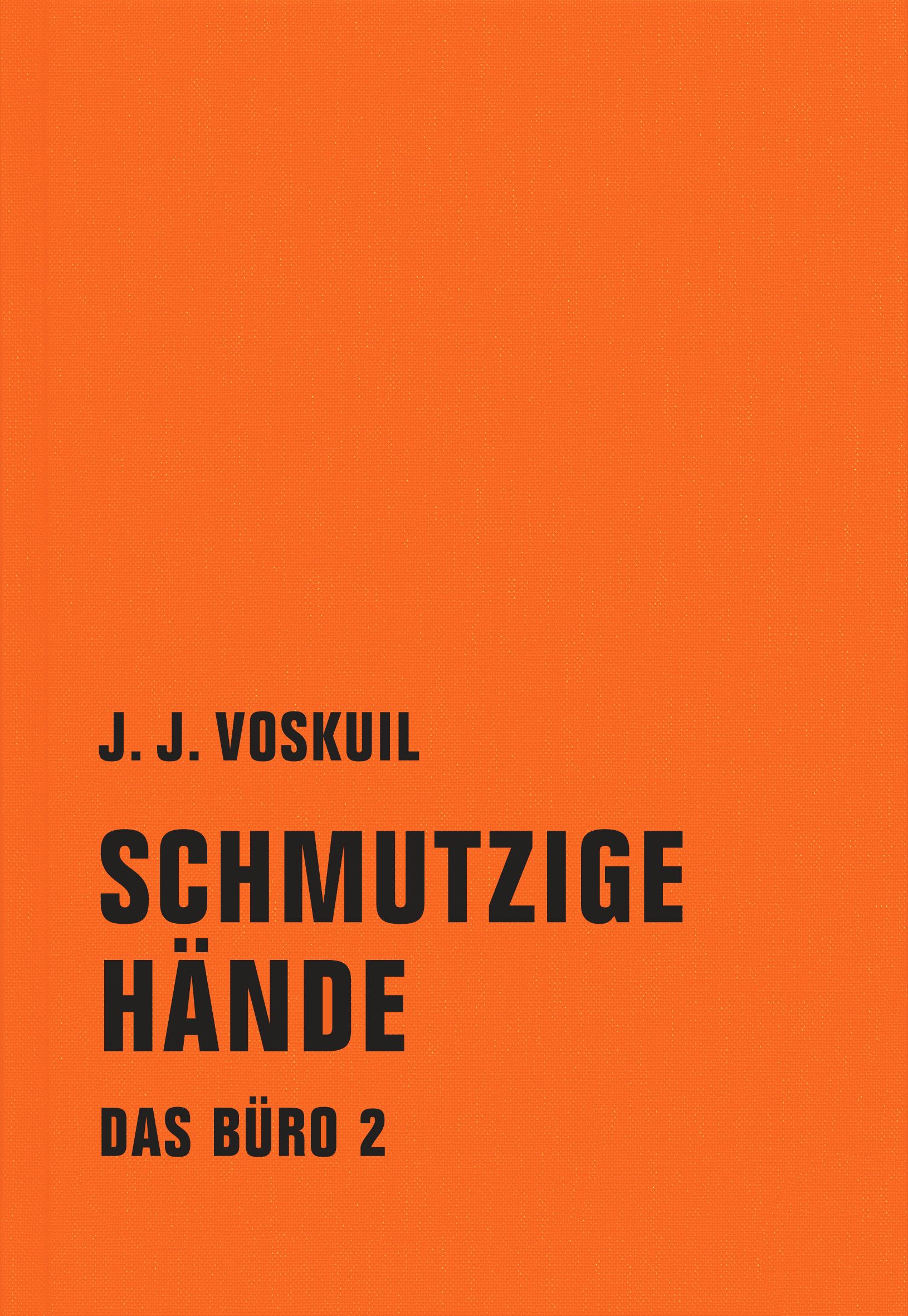 german translation of Vuile Handen by J.J. Voskuil